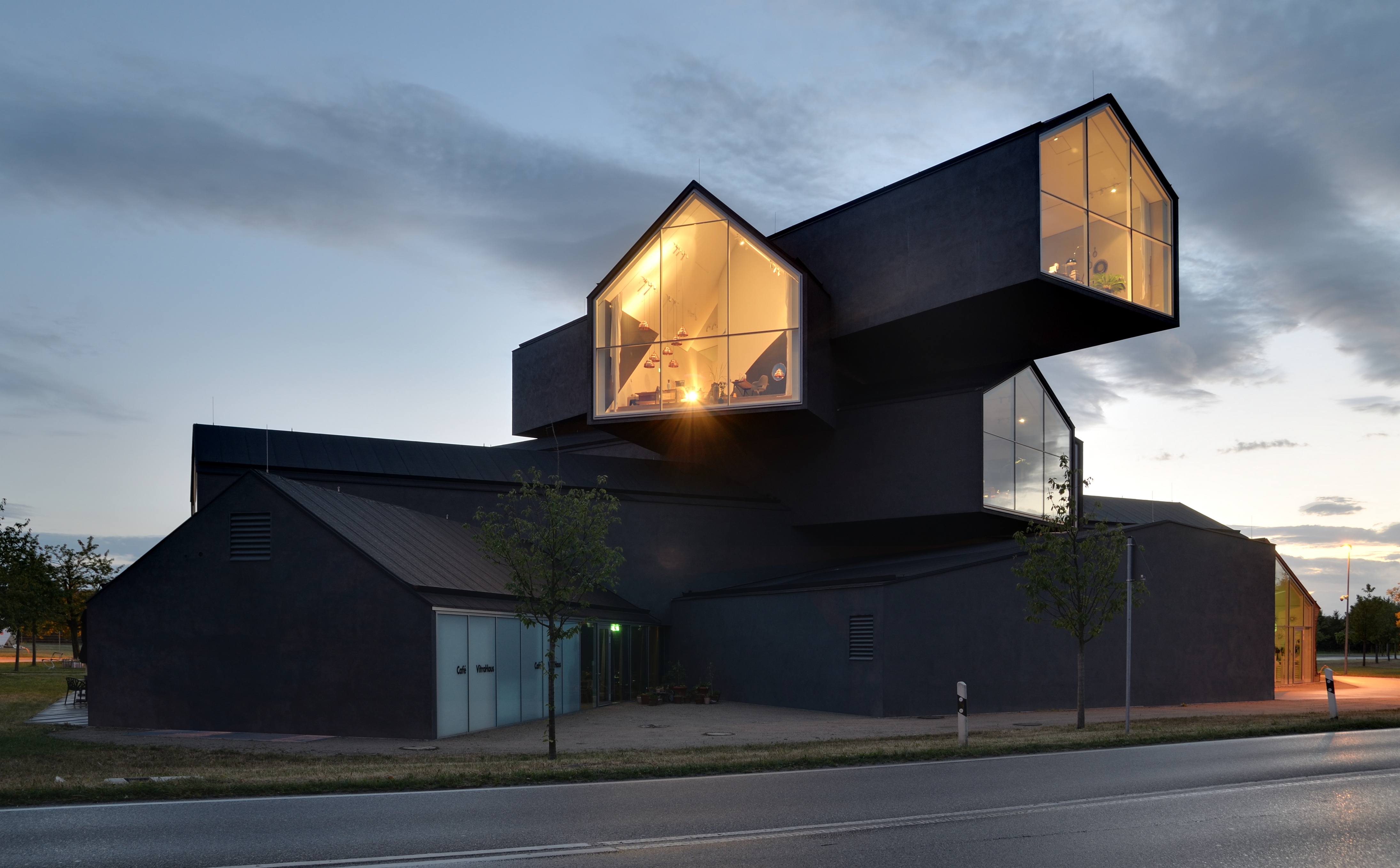 Weil am Rhein: Vitra House